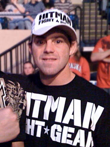 Chris Kelly with Jens Pulver at UFC: Neer vs Diaz